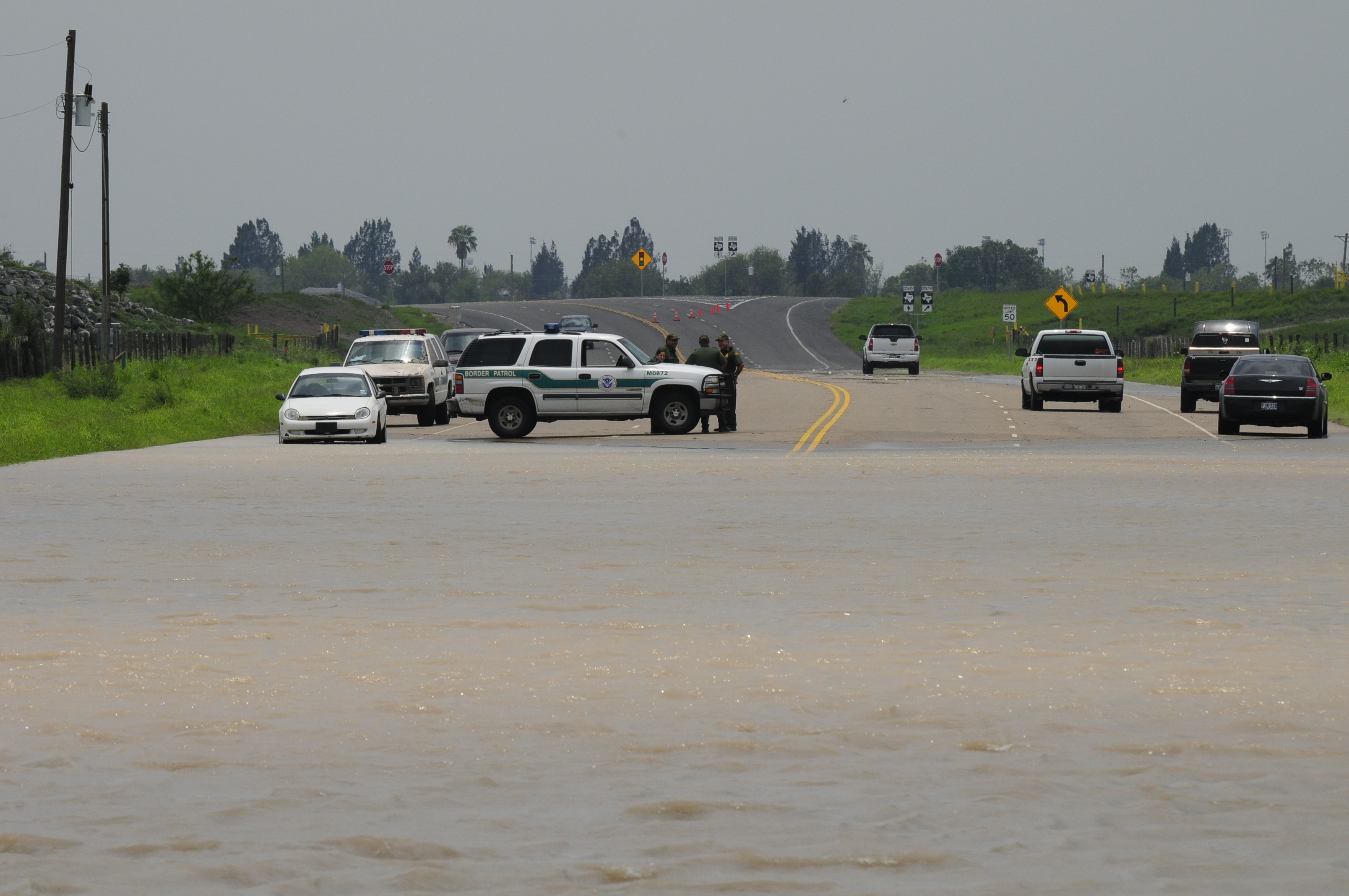 Progreso,TX, July 24, 2008 -- Custom and Border Patrol (CBP) agents turn around vehicles on a a flooded highway, as they assist the Texas Highway Patrol. The flooding was a result of hurricane Dolly. Hurricane Dolly crossed South Padre Island with 120mph winds. Barry Bahler/FEMA